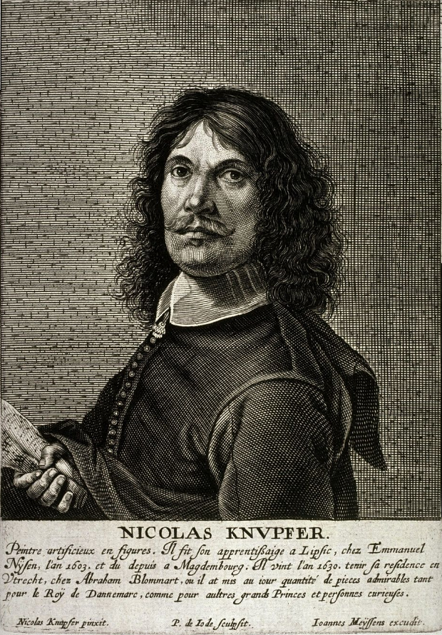 Portrait of Nicolaes Knupfer, after a self-portrait, printed by Pieter de Jode II for the book of artist biographies "Gulden Cabinet" by Cornelis de Bie.